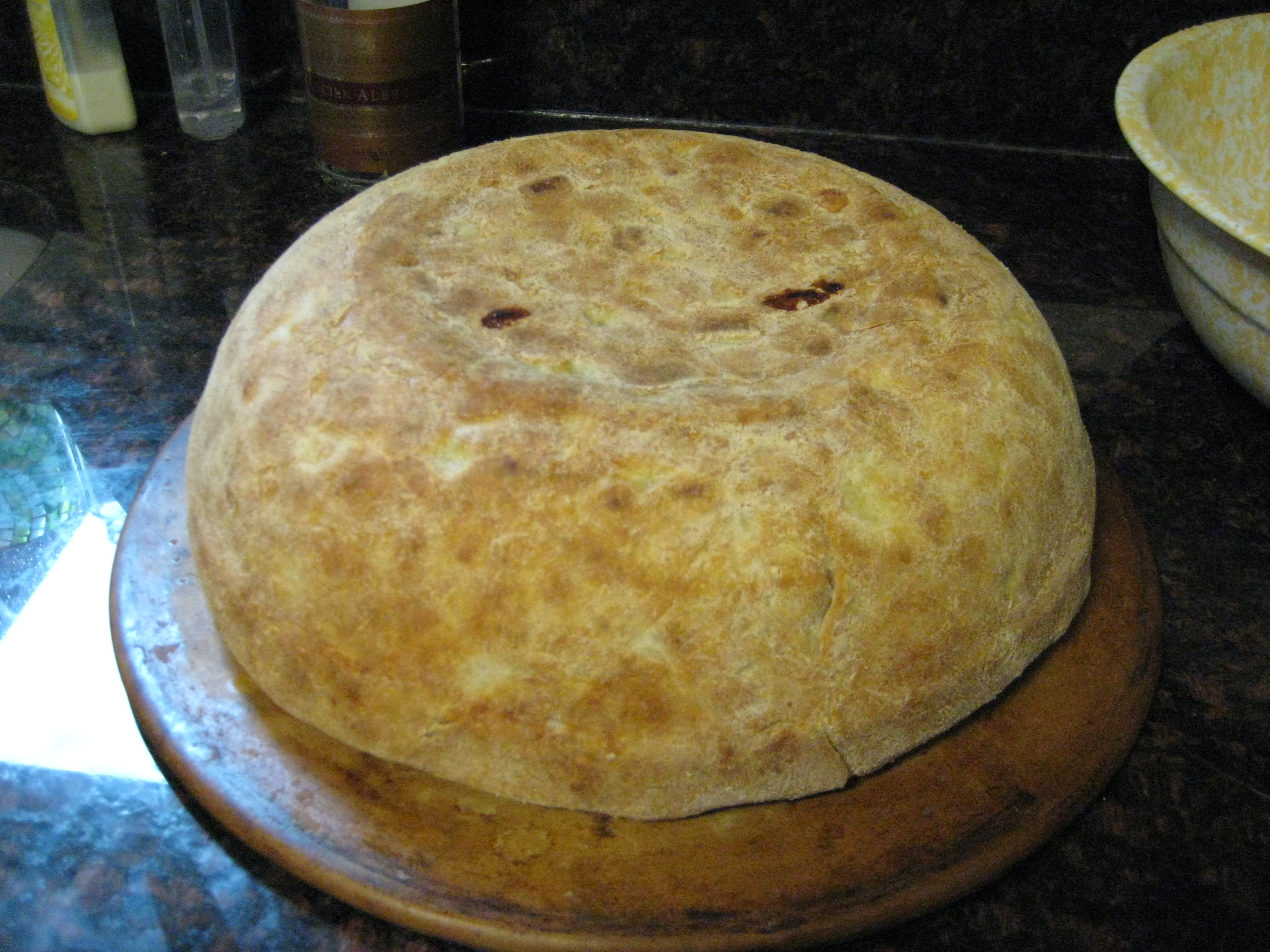 Timballo Pattadese - a family recipe from Pattada, Sardegna : Six layers: beef/mushroom, pasta forno, spinach quiche, pork/salami/provolone, pasta forno, sweet sausage